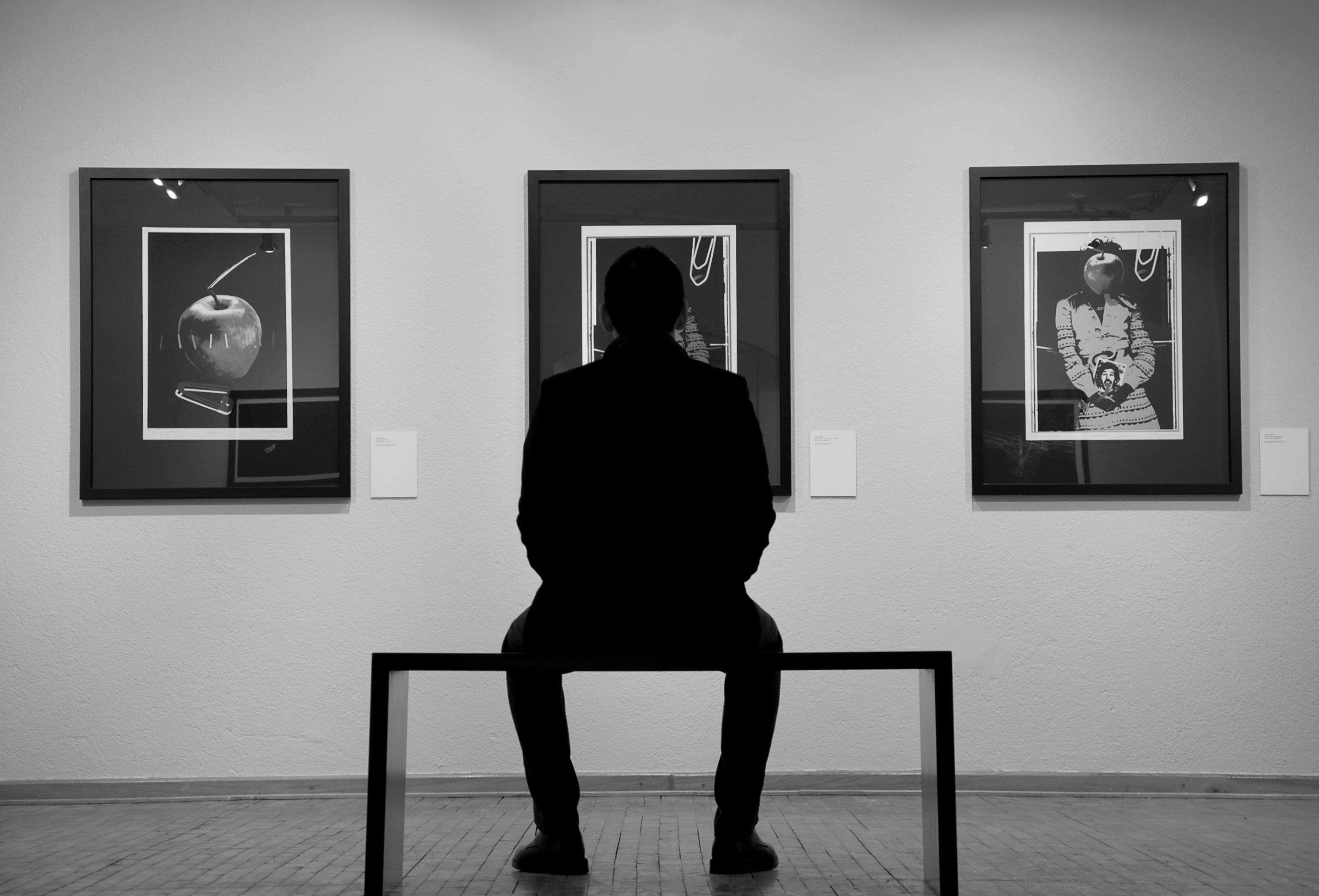 in Prishtina